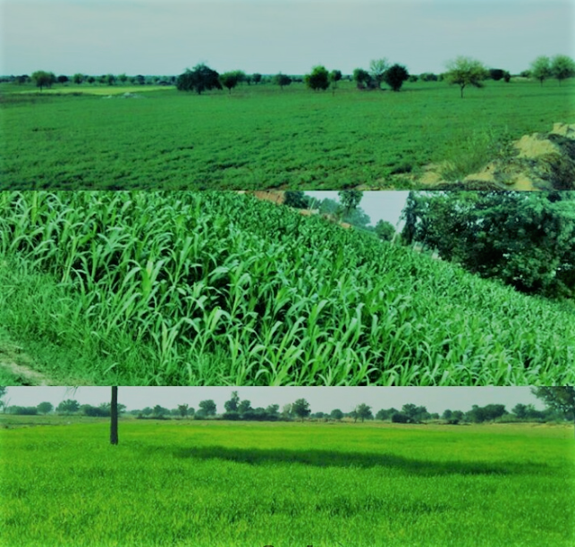 this pictures is taken from village raiyatunda